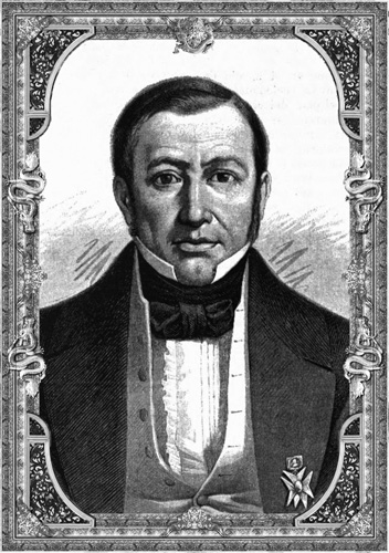 Self-portrait of Mariano Paredes y Arrillaga, Lithograph (1870-1907).